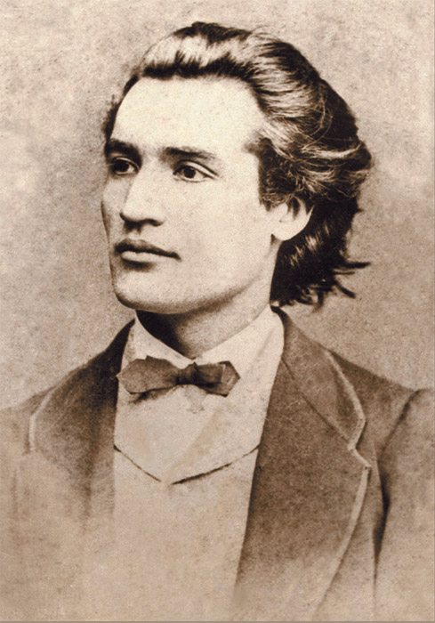 Jan Tomas - Mihai Eminescu, Prague, 1869.